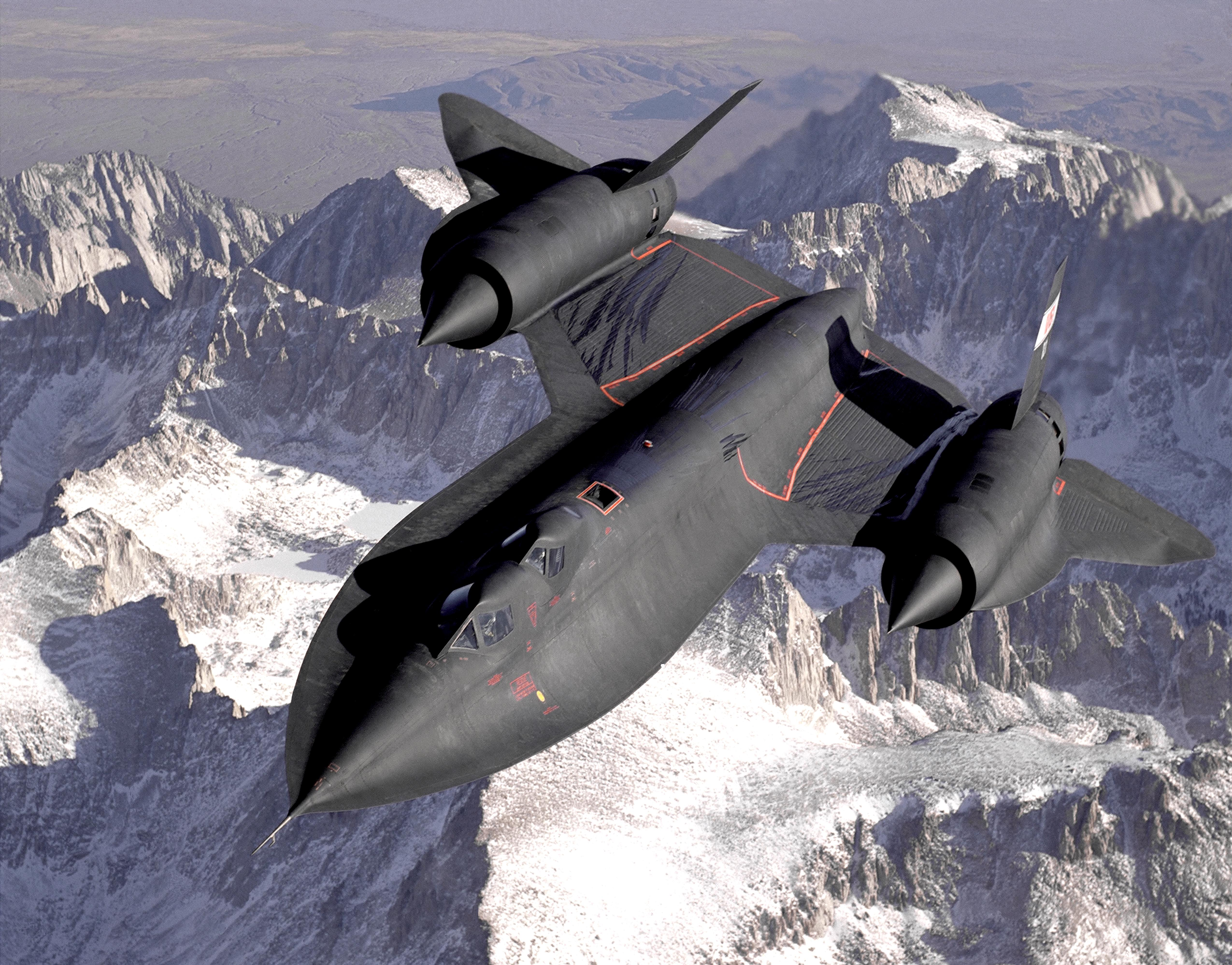 The SR-71B Blackbird, flown by the Dryden Flight Research Center as NASA 831, slices across the snow-covered southern Sierra Nevada Mountains of California after being refueled by an Air Force tanker during a 1994 flight. SR-71B was the trainer version of the SR-71. Notice the dual cockpit to allow the instructor to fly the airplane.